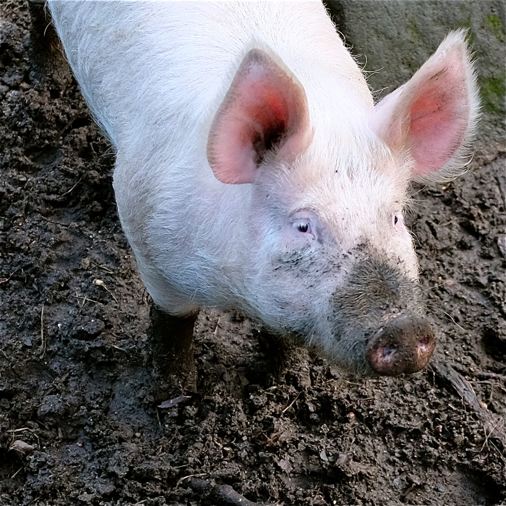 A large white boar in wallow.